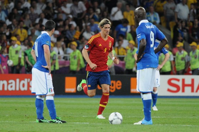 Antonio Di Natale, Fernando Torres and Mario Balotelli at Euro 2012 final Spain-Italy